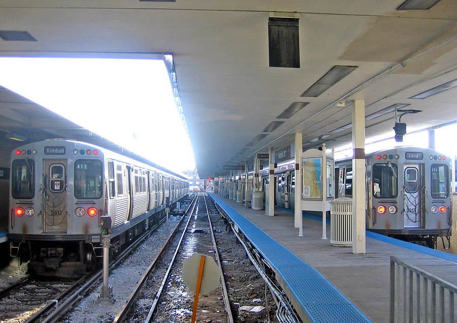 The platforms of the renovated Kimball station are seen looking south on January 25, 2007, two weeks after the station reopened. The platform area was only moderately altered with work primarily pertaining to extension of the island platform to accommodate 8-car trains. The island platform (on the right) originally ended where the wood decking ends. The platform and three tracks were extended about 25 feet north (toward the camera) and approximately 50 feet south. The three-sided information pylon was added during the renovation. The side platform (barely visible behind the train at left) was not touched during the renovation, having been built only about 15 years before and already long enough to accommodate eight cars. Go to for more photos.